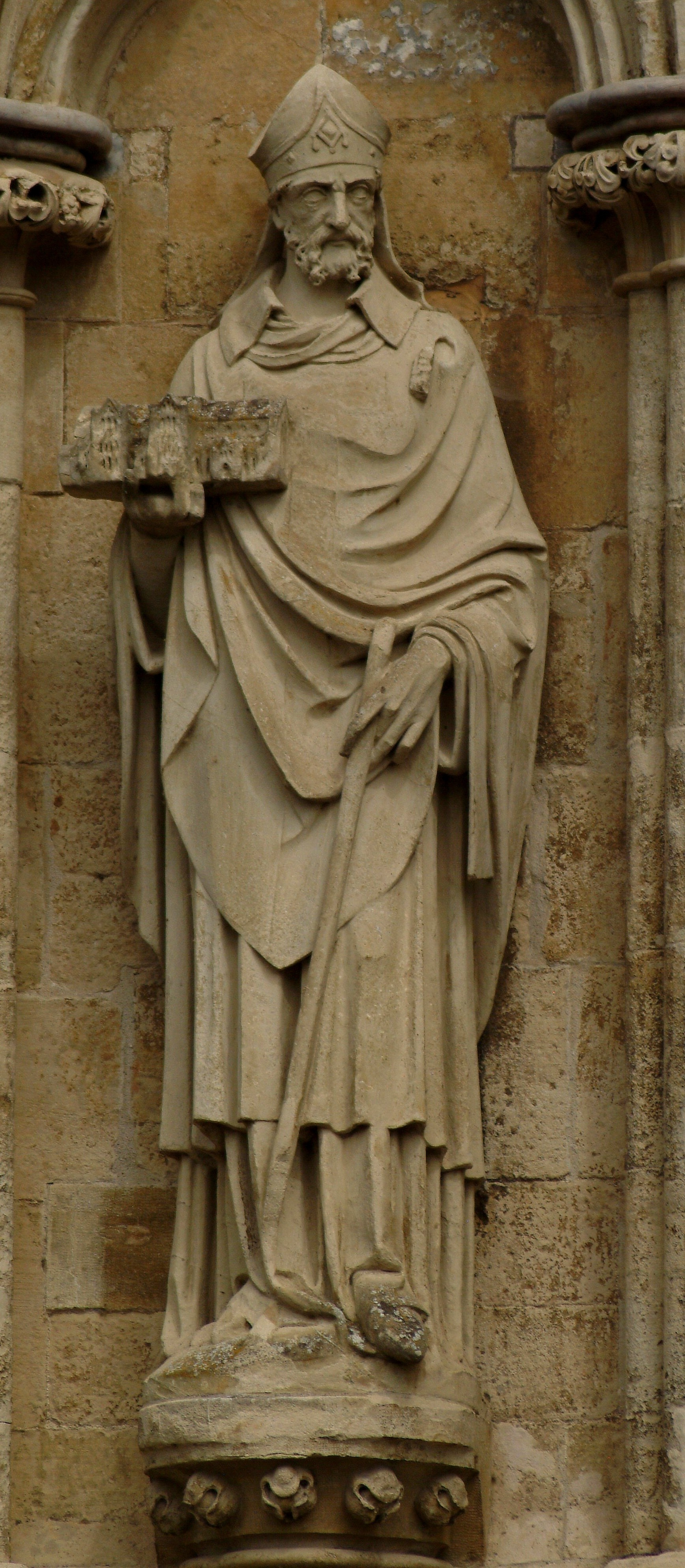 Statue of Bishop Poore on the West Front of Salisbury Cathedral, UK.